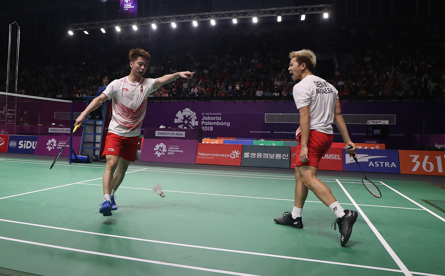 Indonesia team were qualified to the 2018 Asian Games men's team final. Indonesia team beat Japan 3-1 in Istora, Gelora Bung Karno (GBK), Senayan, Tuesday (21/8).